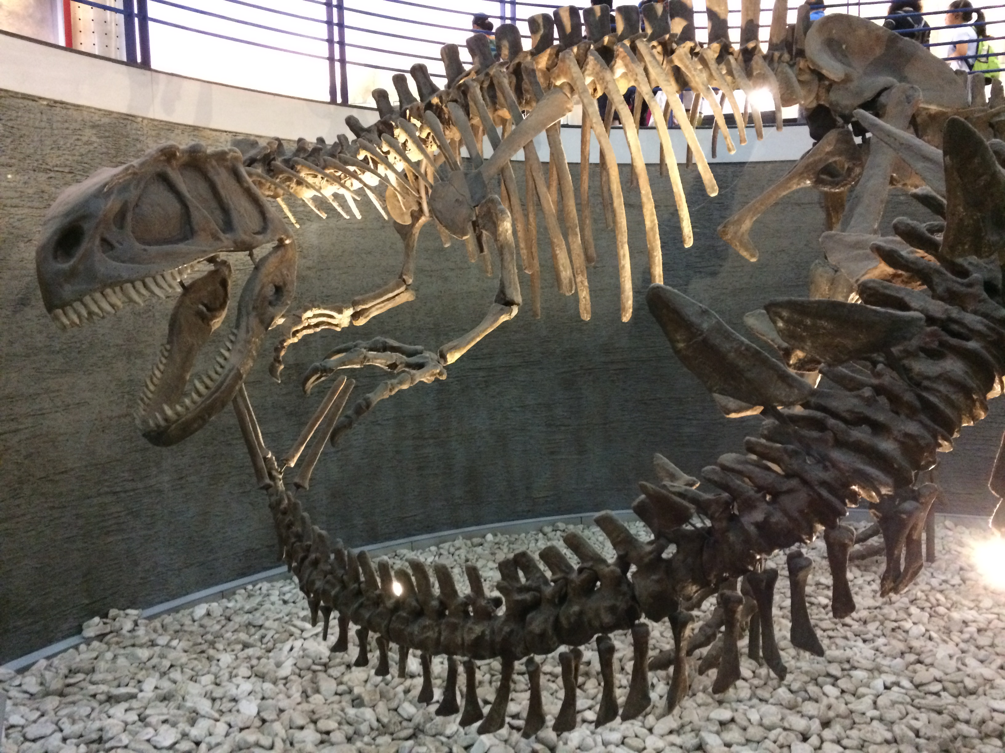 Yangchuanosaurus mount at the Beijing Museum of Natural History